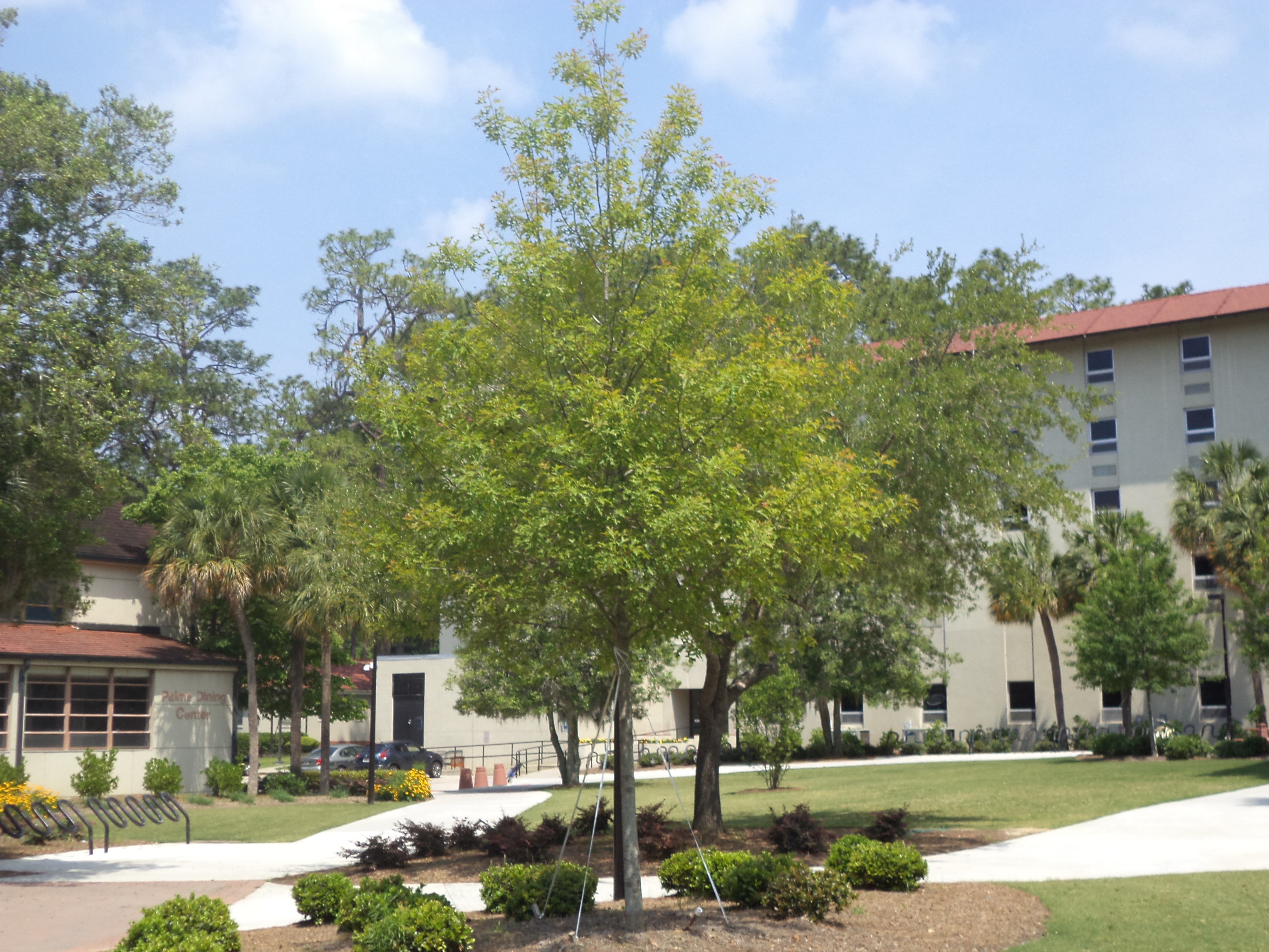 A 'Sangria' Nuttal Oak (Quercus texana) at Valdosta State University, May 2013